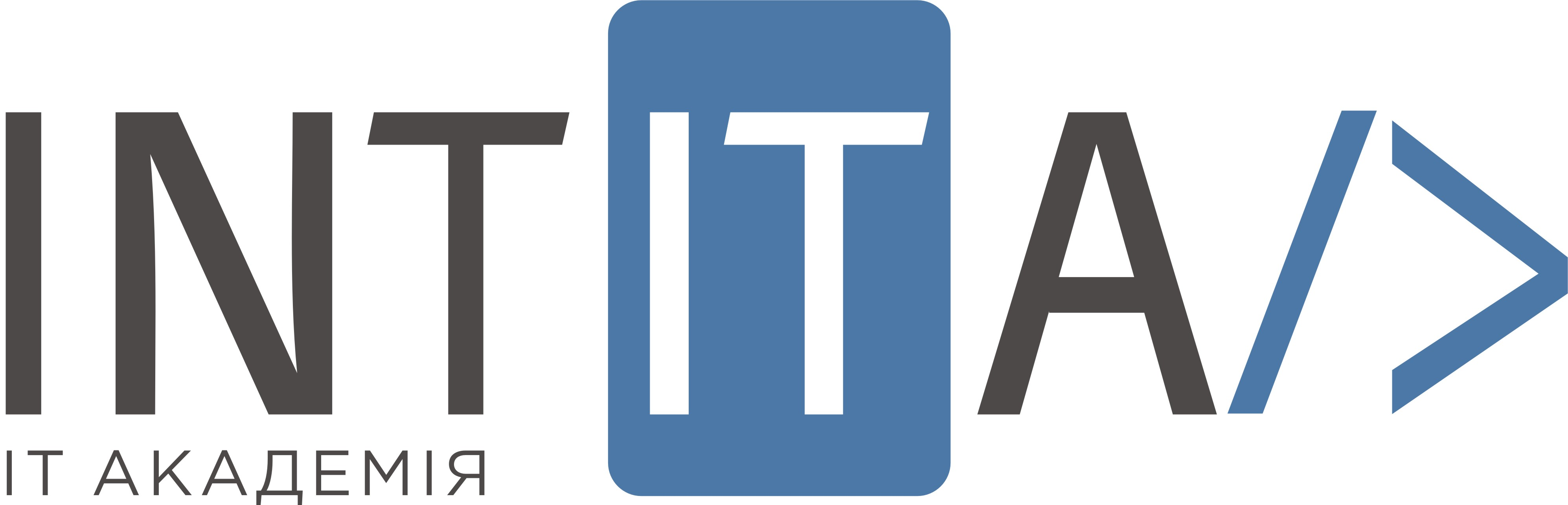 logo of the project